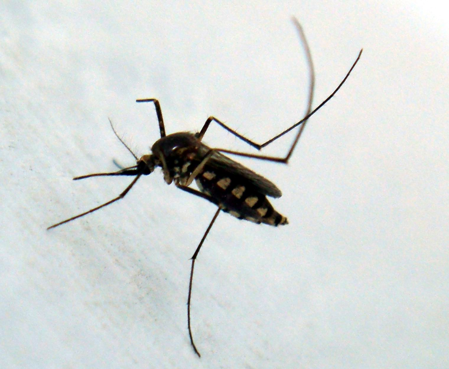 Anopheles mosquito